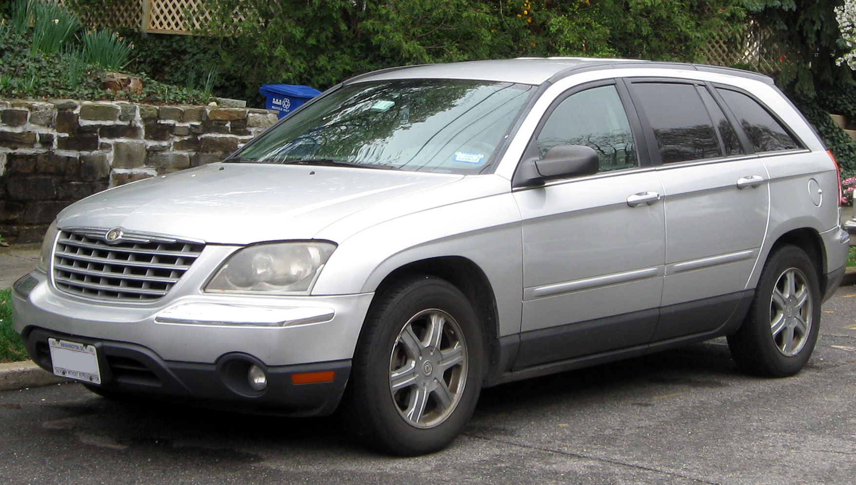 2004-2006 Chrysler Pacifica photographed in Washington, D.C., USA.